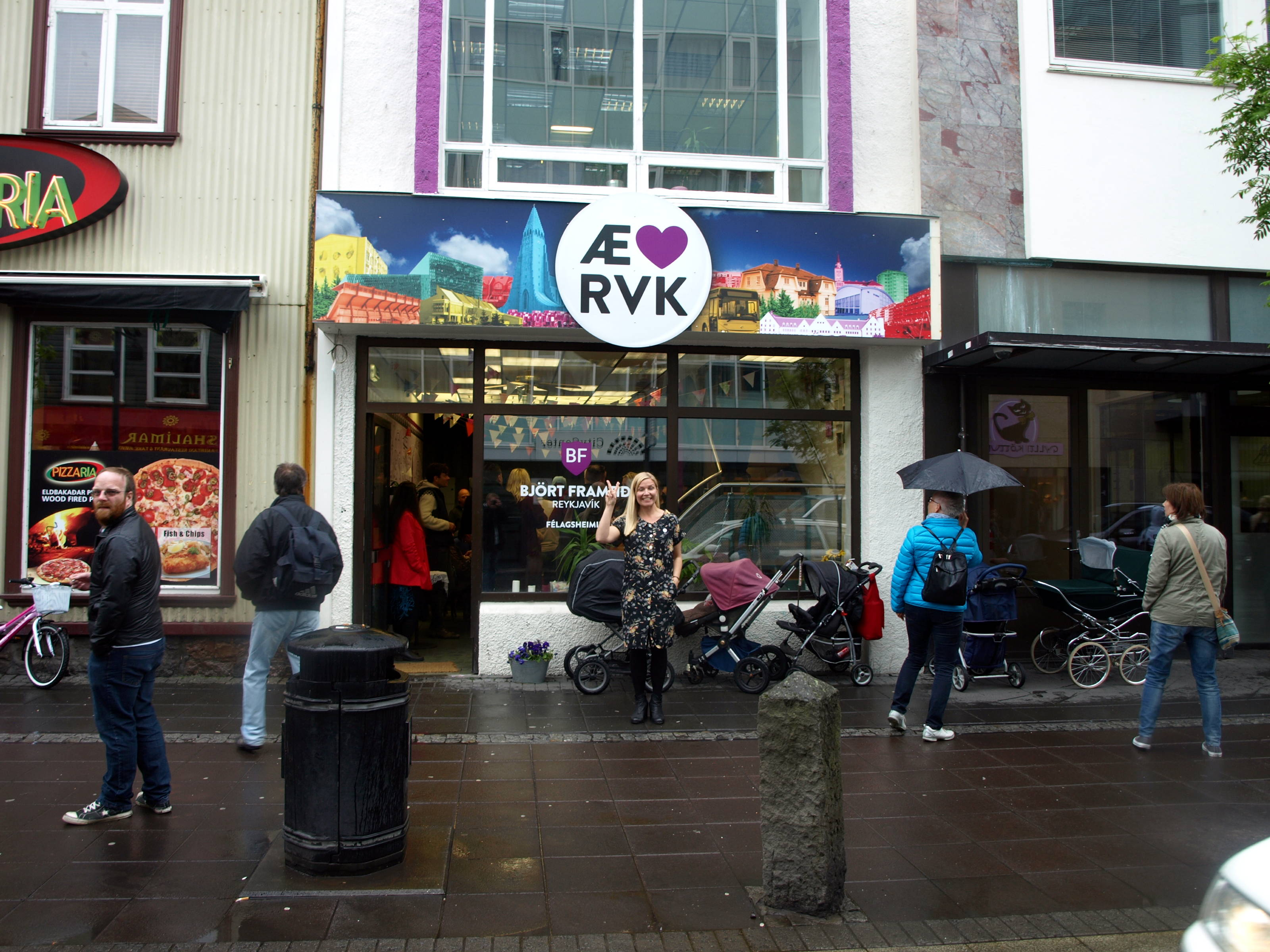 Eva Einarsdóttir, candidate for Björt framtíð in the Reykjavík municipal elections May 31th 2014.